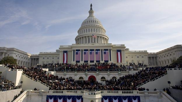 The inauguration of President Barack Obama